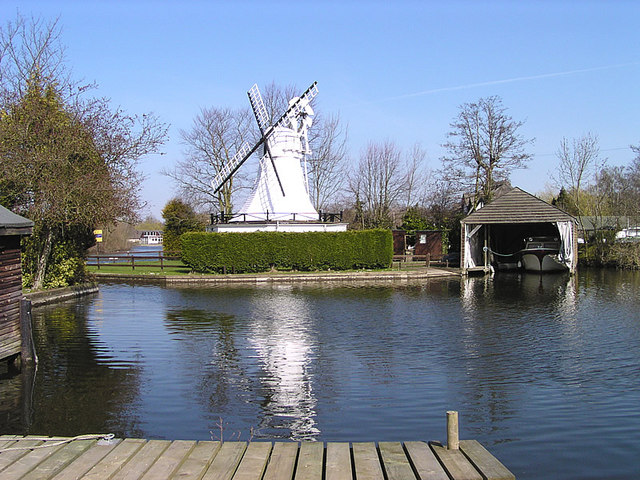 The house converted Horning Ferry mill, Norfolk